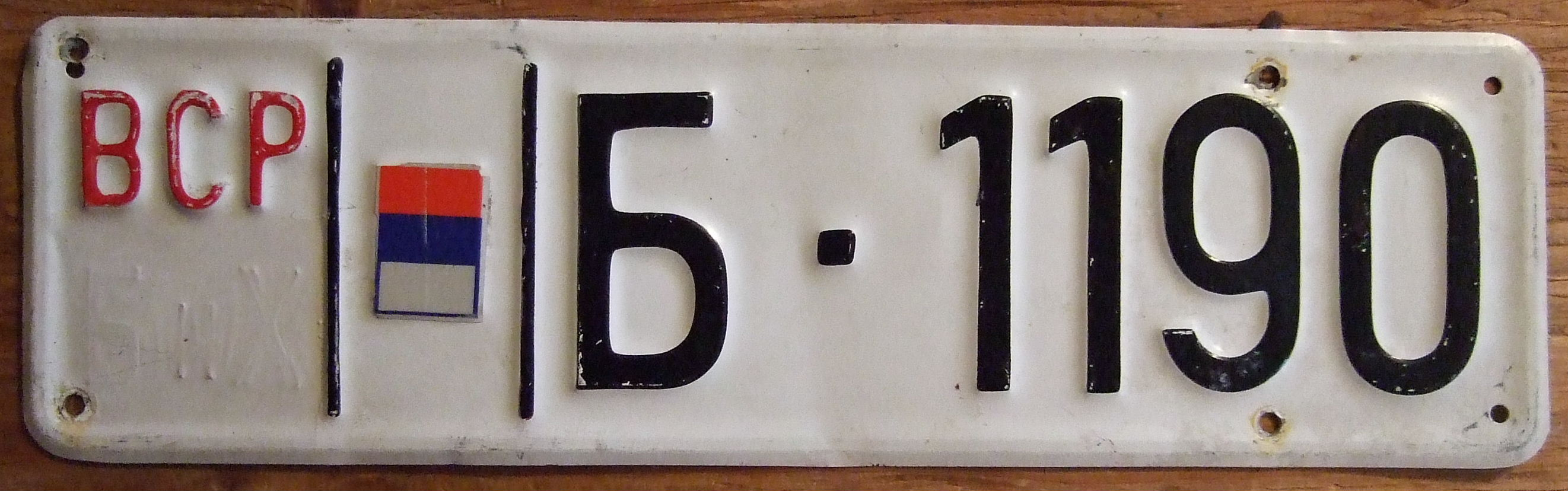 This plate was used on miltary vehicles operating in Bosnia-Herzogovina within the region known as the Republic of Srpska a region dominated by Serbs. Army of Republika Srpska (Serbian: Војска Републике Српске/Vojska Republike Srpske; ВРС/VRS), commonly referred to in English as the Bosnian Serb Army